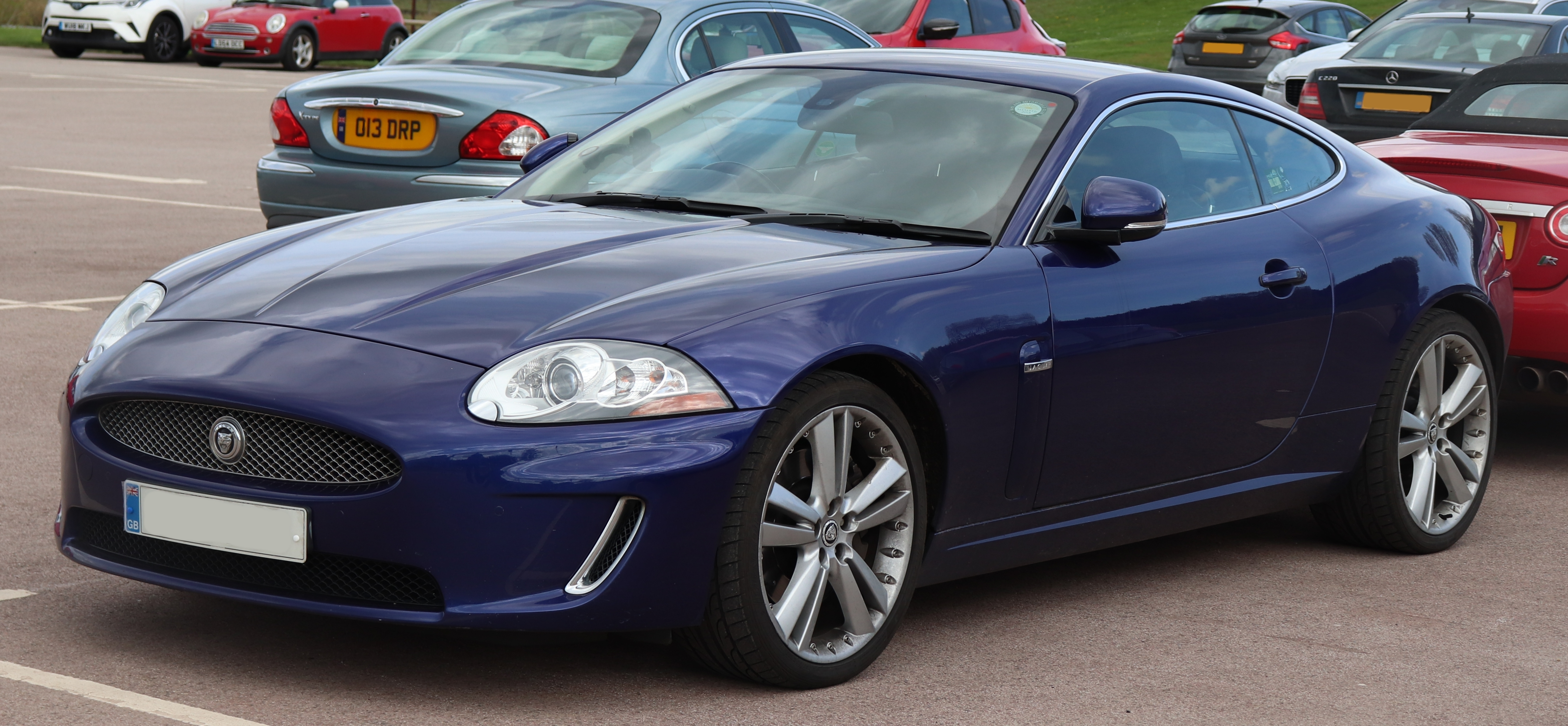 2011 Jaguar XK Portfolio Automatic 5.0 Taken at the British Motor Museum, Gaydon